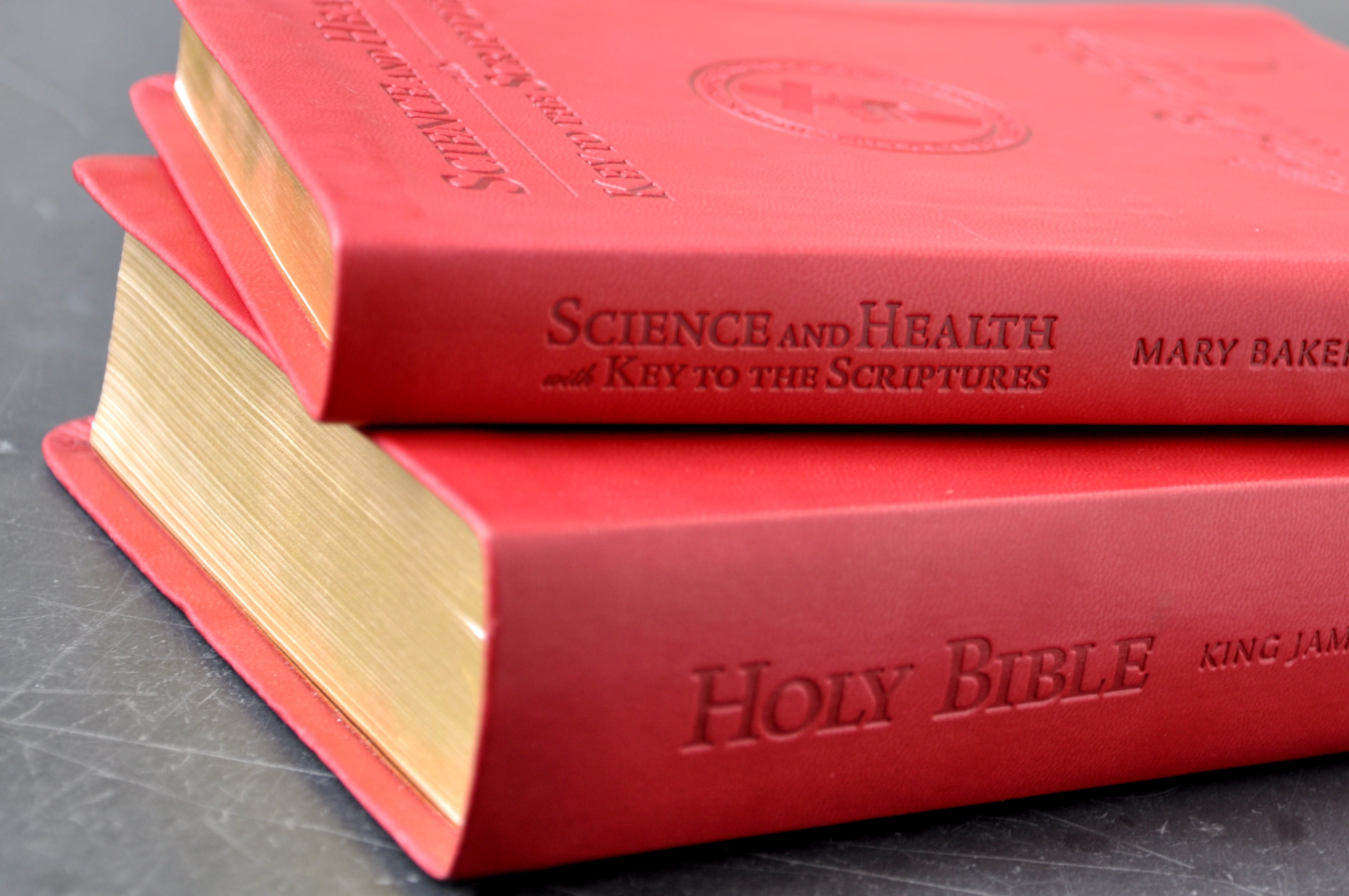 Science and Health by Mary Baker Eddy, and the Bible. Mary Baker Eddy was the founder of Christian Science. Science and Health was first published in the United States in 1875, and is the religion's main textbook.